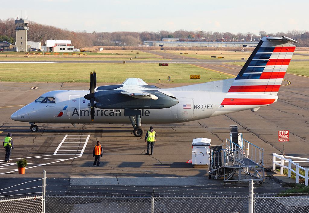 American Eagle Dash 8 Tweed-New Haven Airport